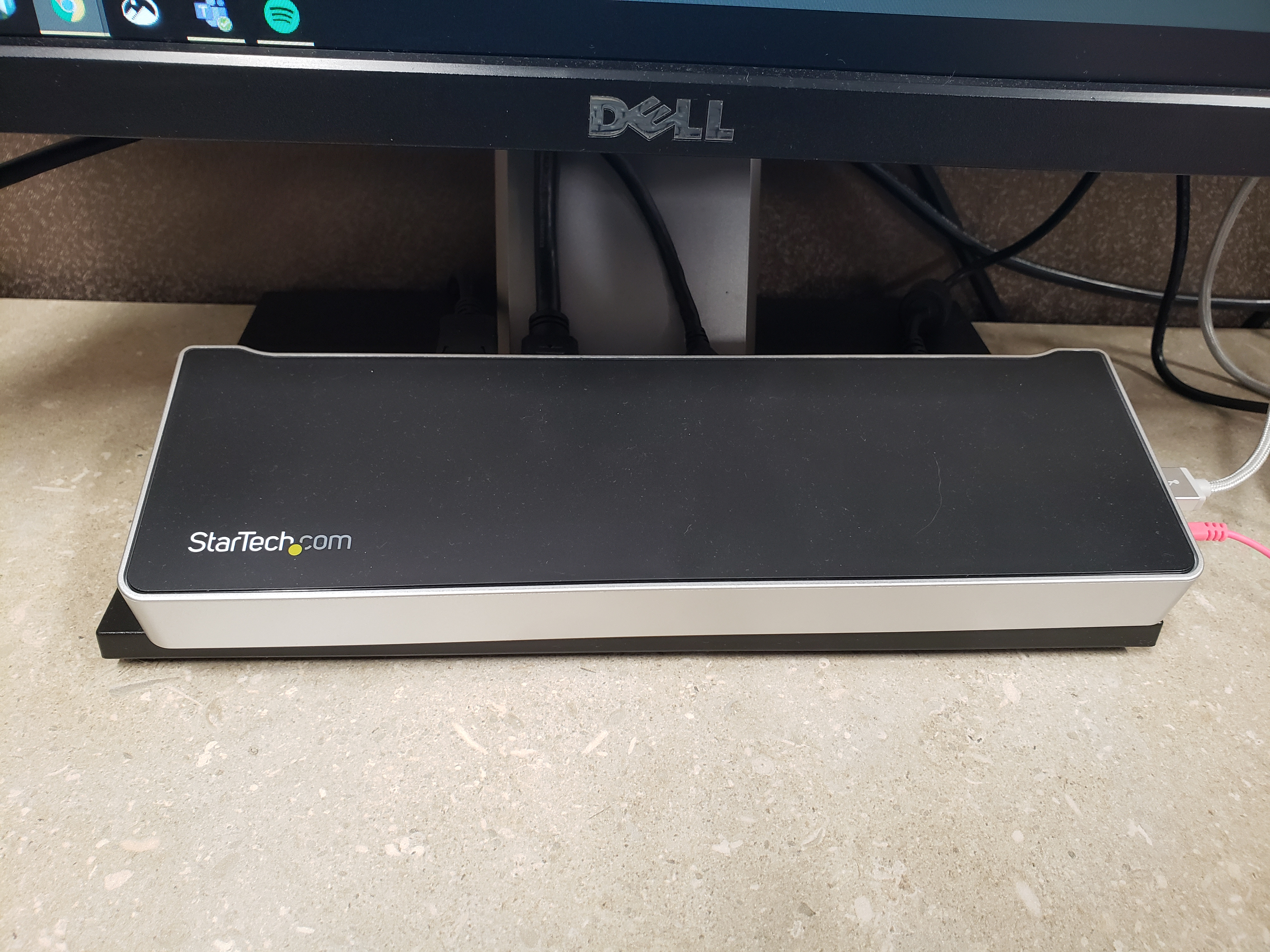 USB-C based triple monitor dock from a third party